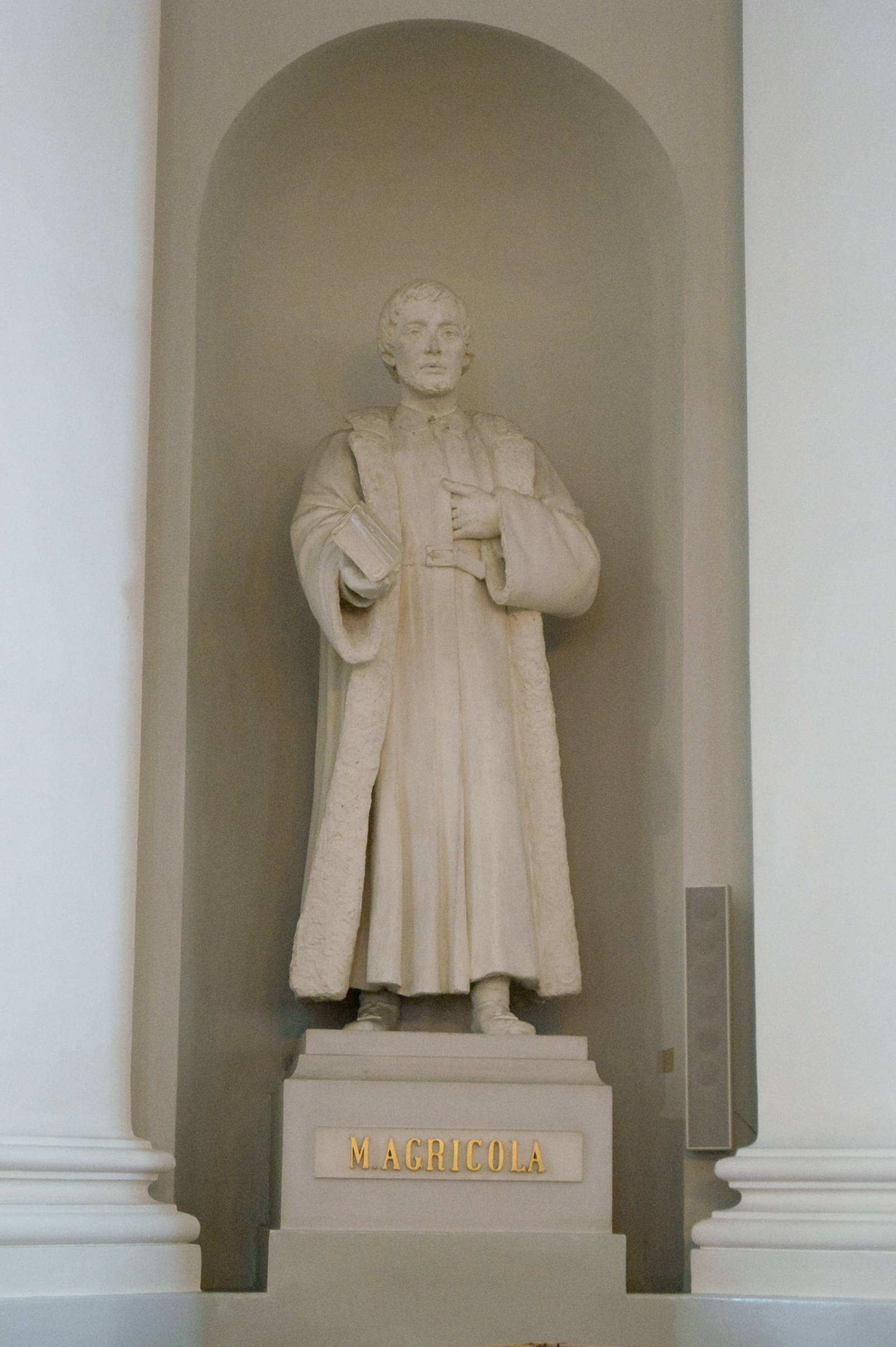 Statue of Mikael Agricola 1510–1557, bishop of Turku in Helsinki Lutheran Cathedral sculpted by Ville Vallgren in 1887.